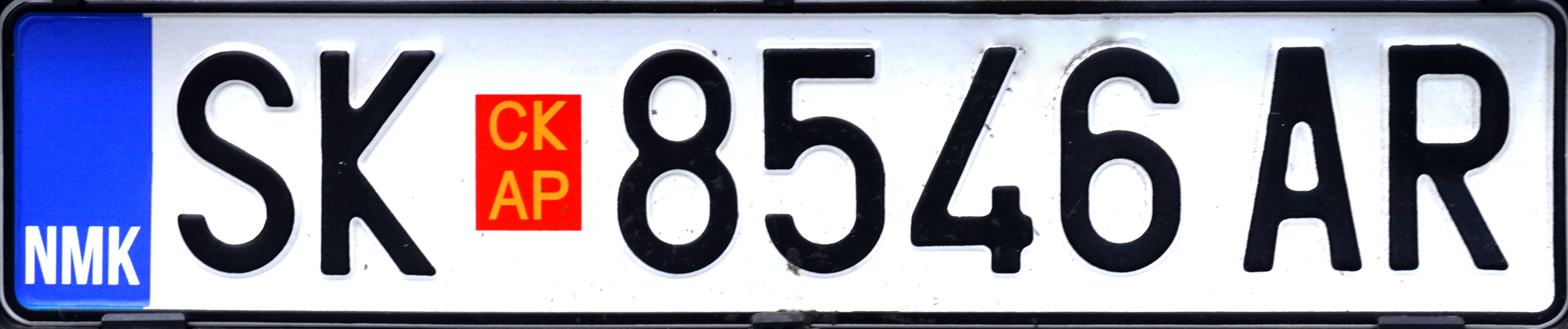 Number plate of North Macedonia (SK = Skopje). Version issued since February 2019 (NMK country code).